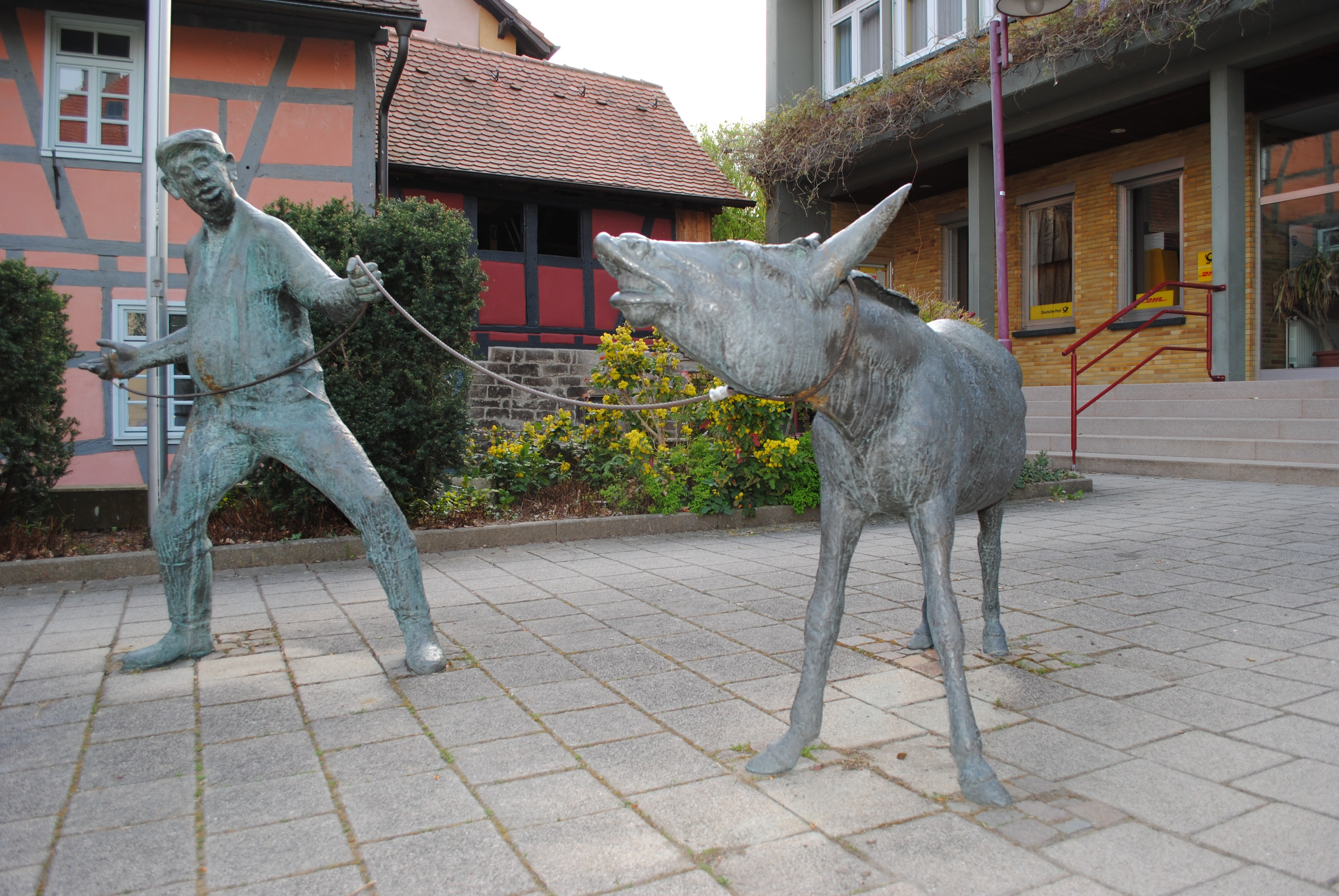 The Donkey of Zaisenhausen